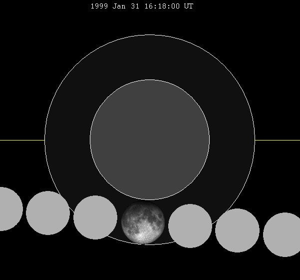 January 1999 lunar eclipse chart of moon's penumbral lunar eclipse path through the earth's shadow. thumb